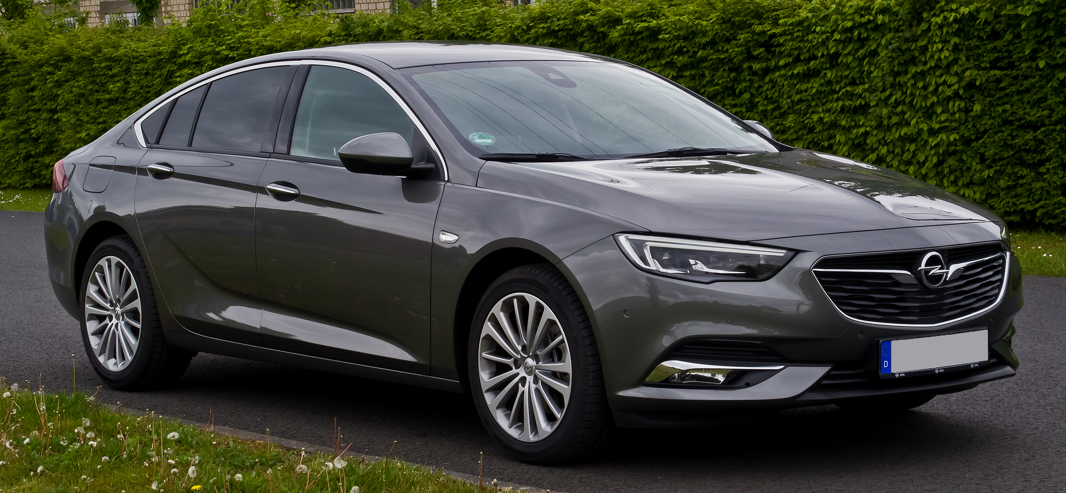 Opel Insignia Grand Sport 1.6 Diesel Business Innovation (B)